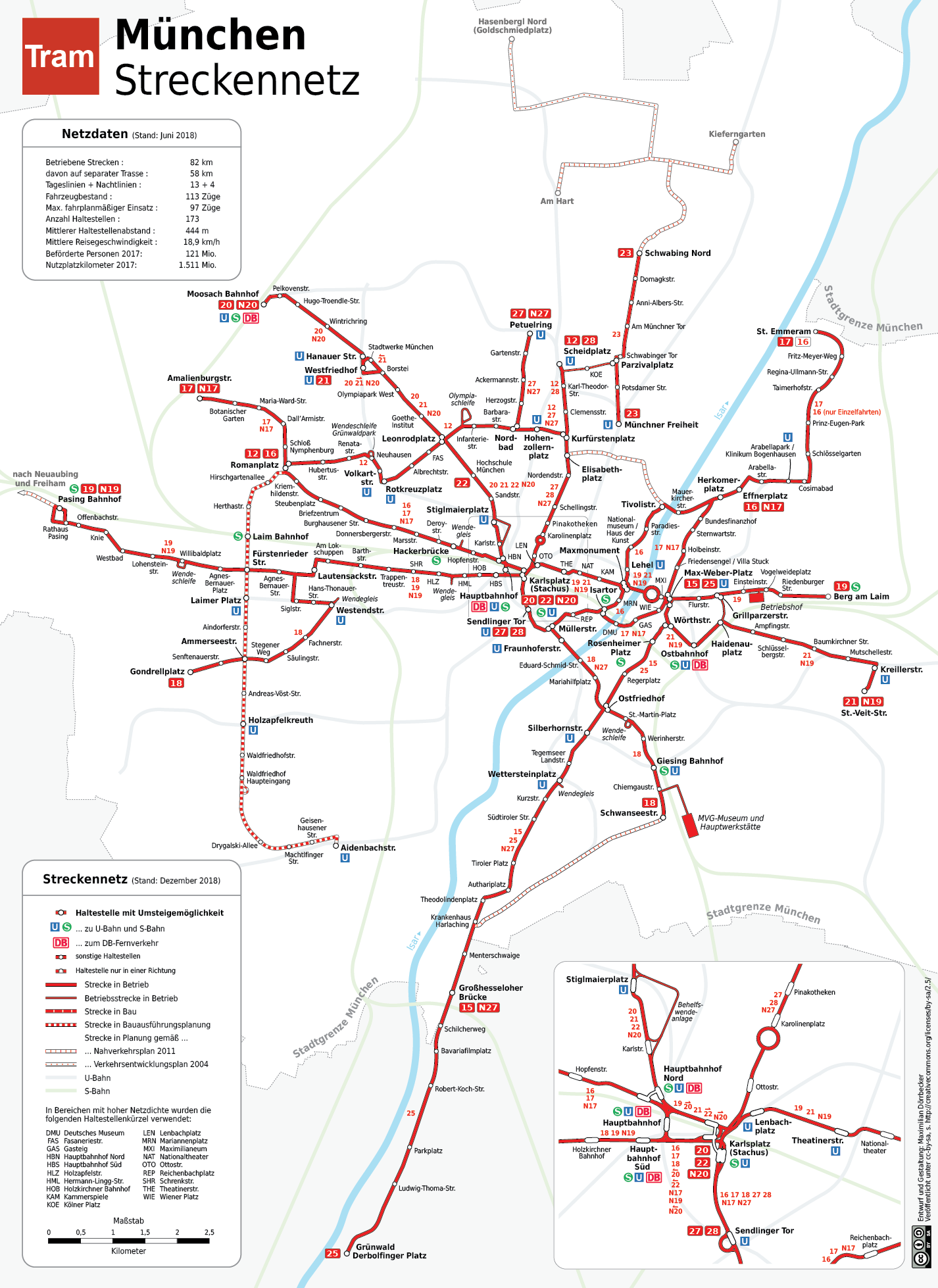 Map: Munich streetcar network